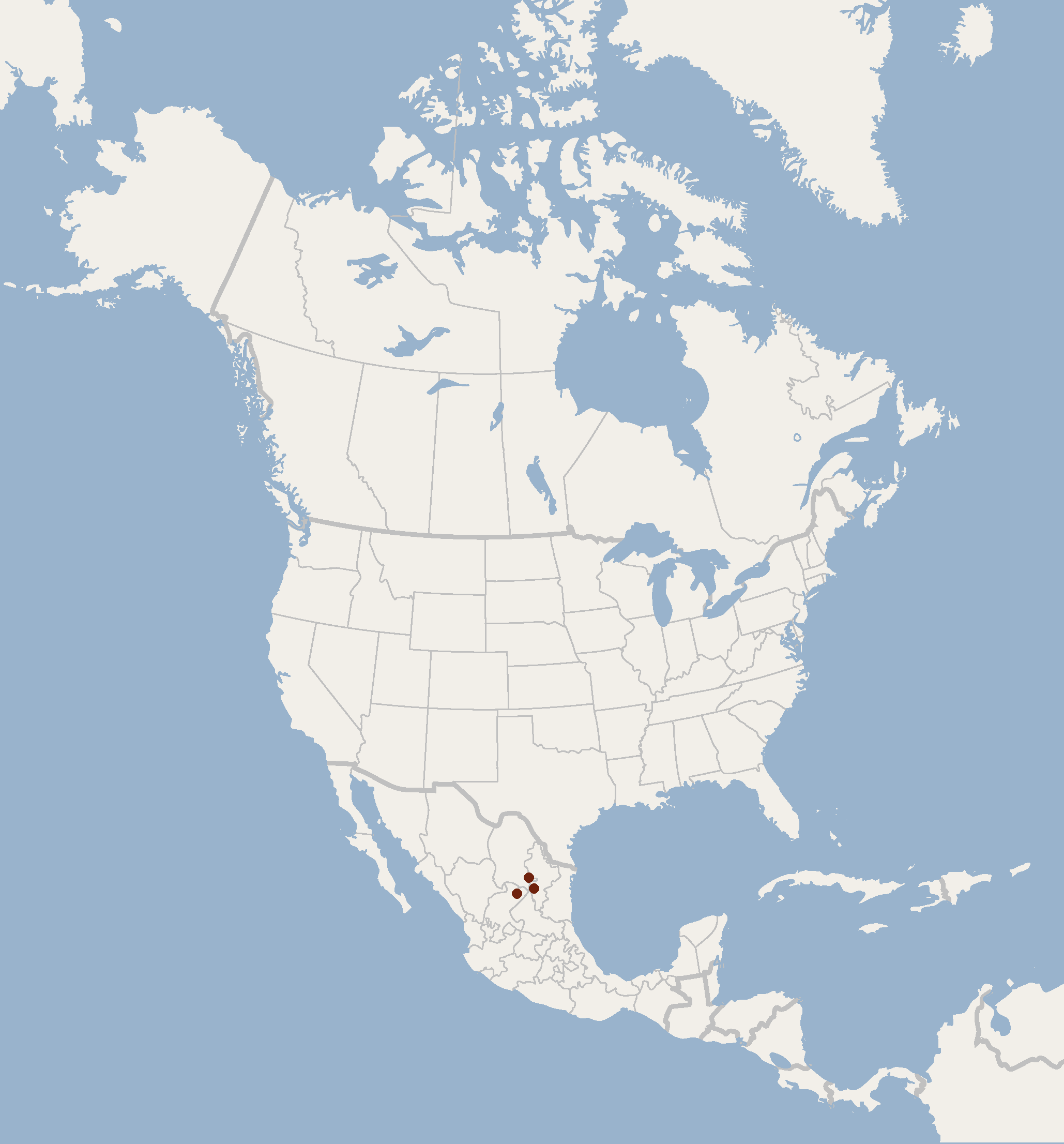 Geographical distribution of Myotis fortidens according to Museum specimens